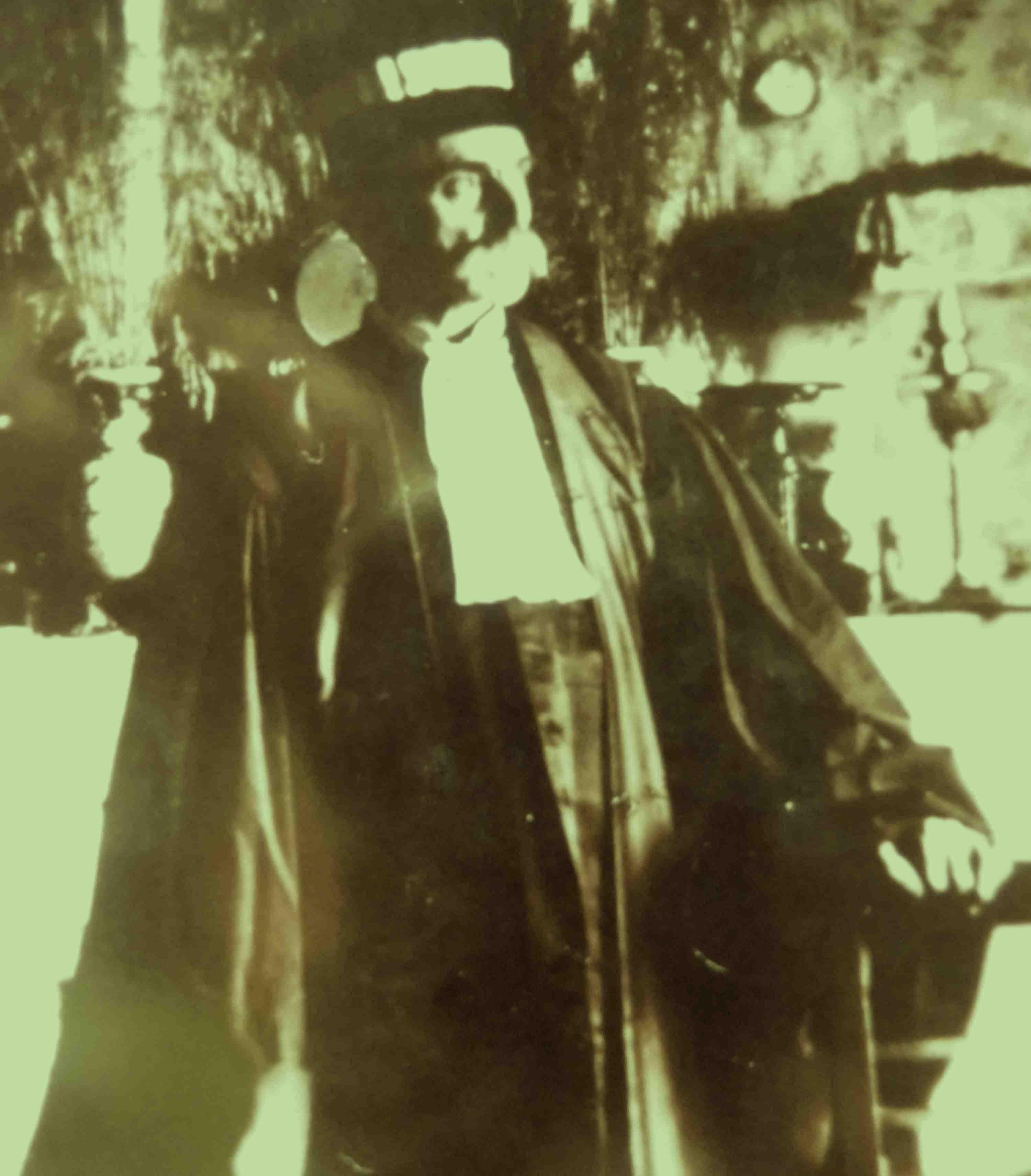 François Malègue as a judge